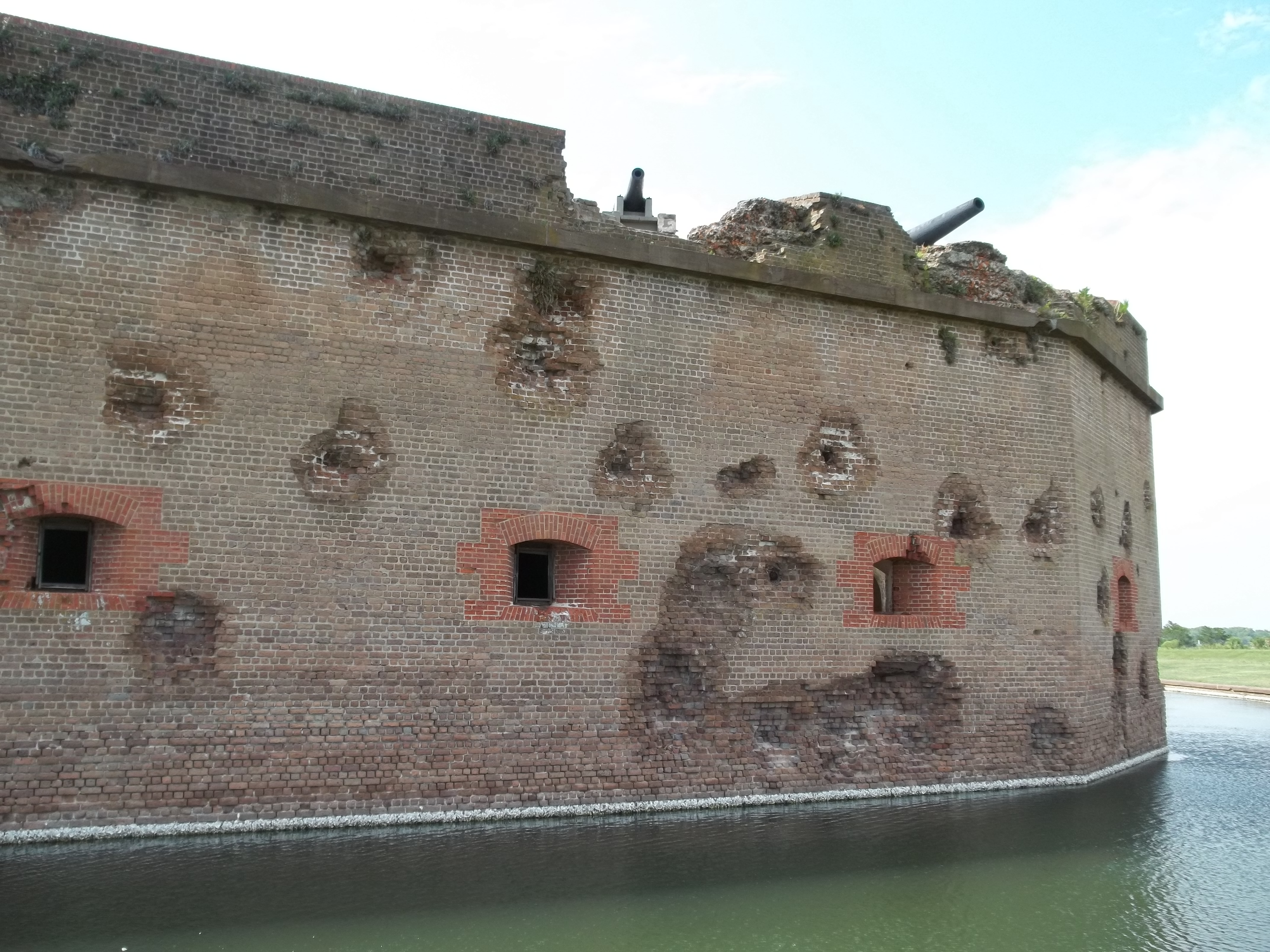 Fort Pulaski National Monument in Savannah, Georgia